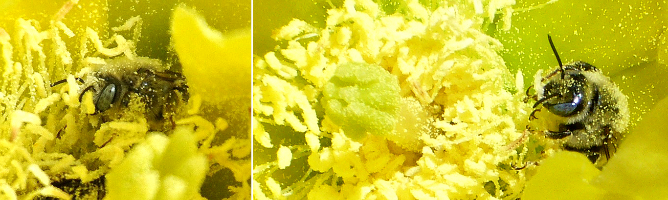 The same Diadasia bee in two foraging positions. The metedata below is reflecting the white background matting shot's specs and time stamps, not the pasted photo's specs. The photos were taken on May 9th, 2017, at approximately noon, with a Nikon D-90, and an 18-70mm lens.